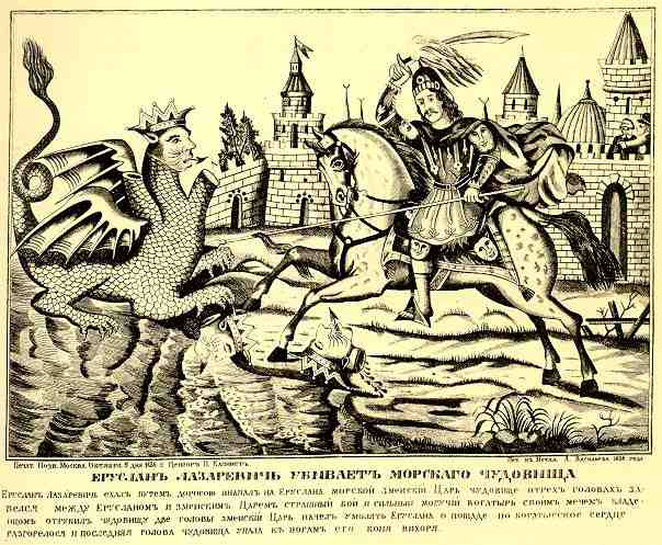 Eruslan Lazarevich slaying a sea monster. Russian lubok, XIXth century.